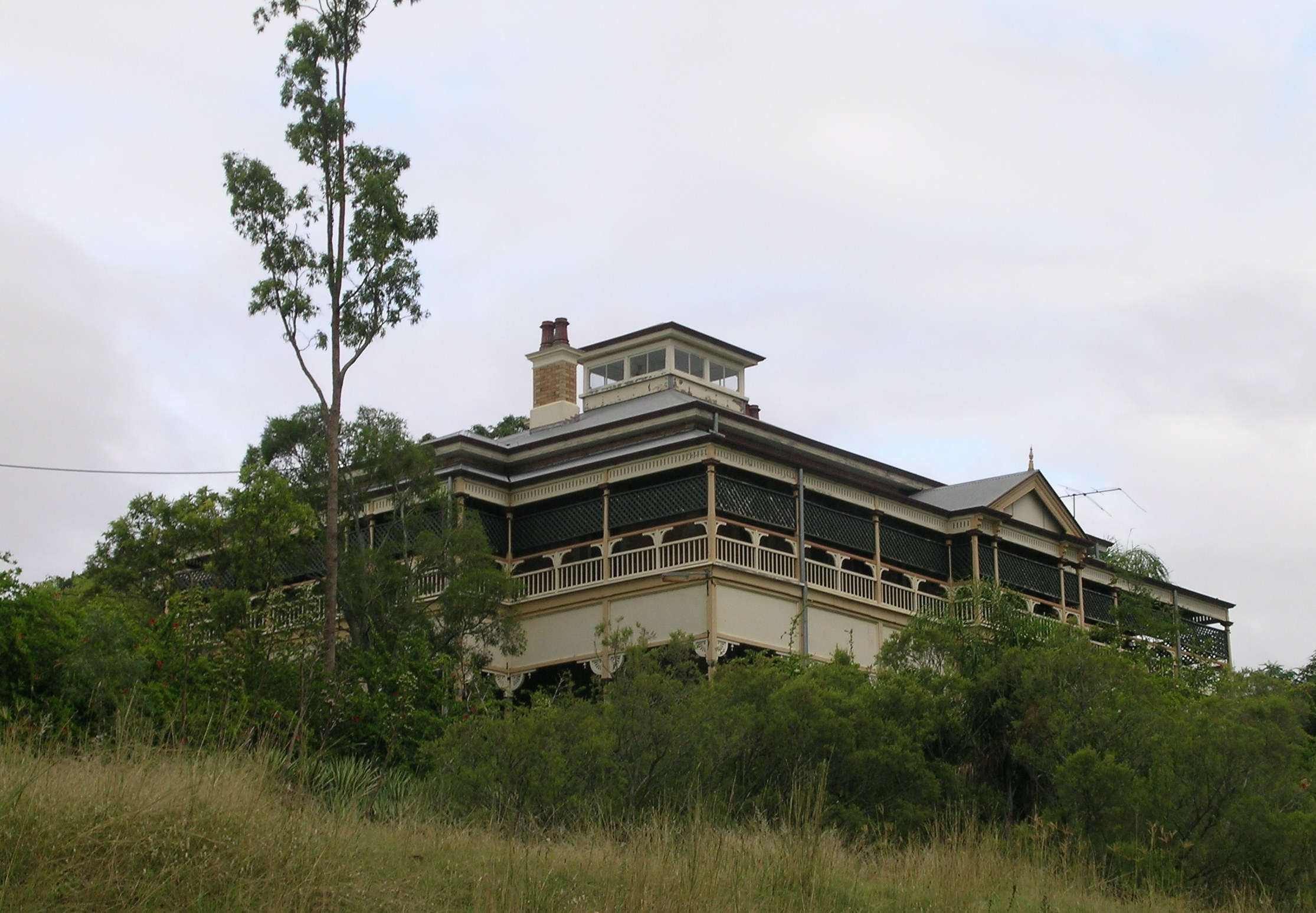 Queensland style architecture, Ipswich, QLD